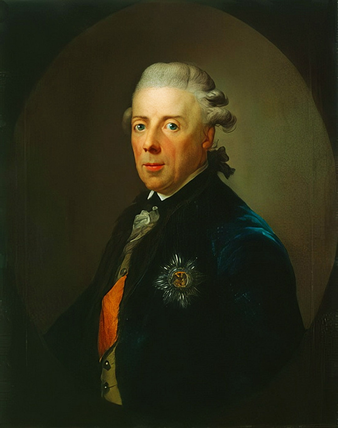 Prince Henry of Prussia (1726–1802), brother of Frederic the Great